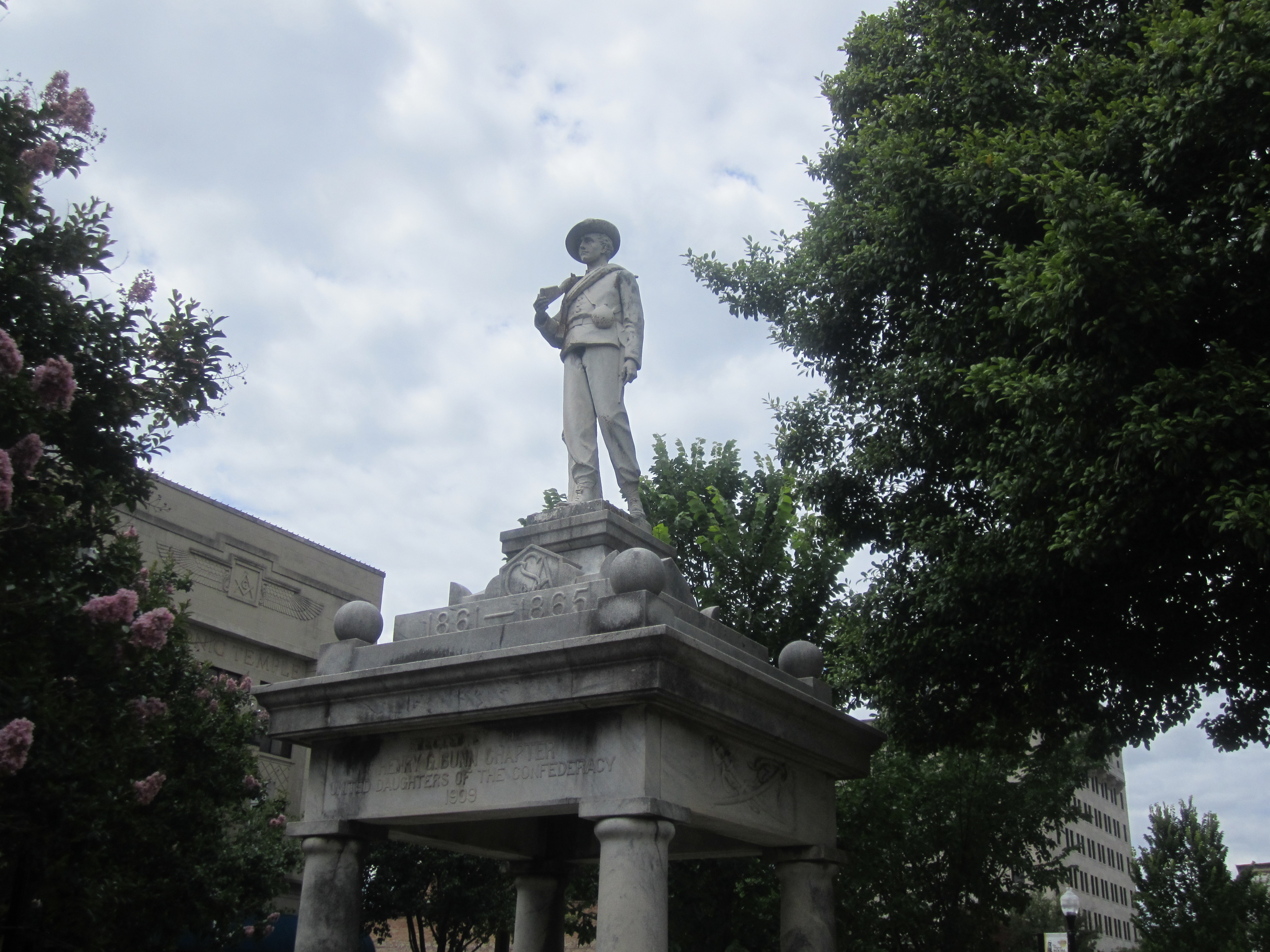 I took photo with Canon camera of Confederate soldier monument at Union County Courthouse in El Dorado, AR.